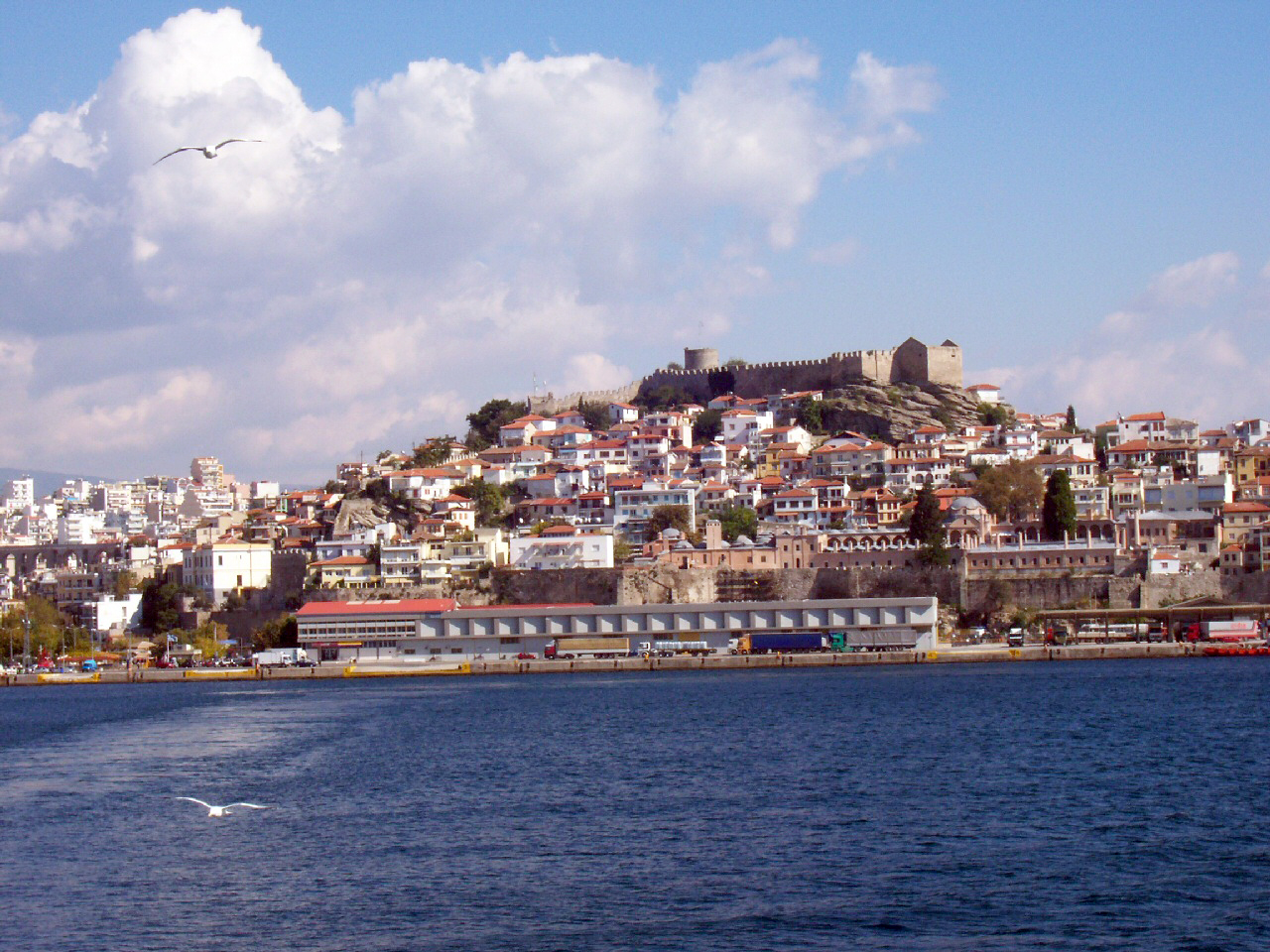 A view of the castle of Kabala,Greece from the sea